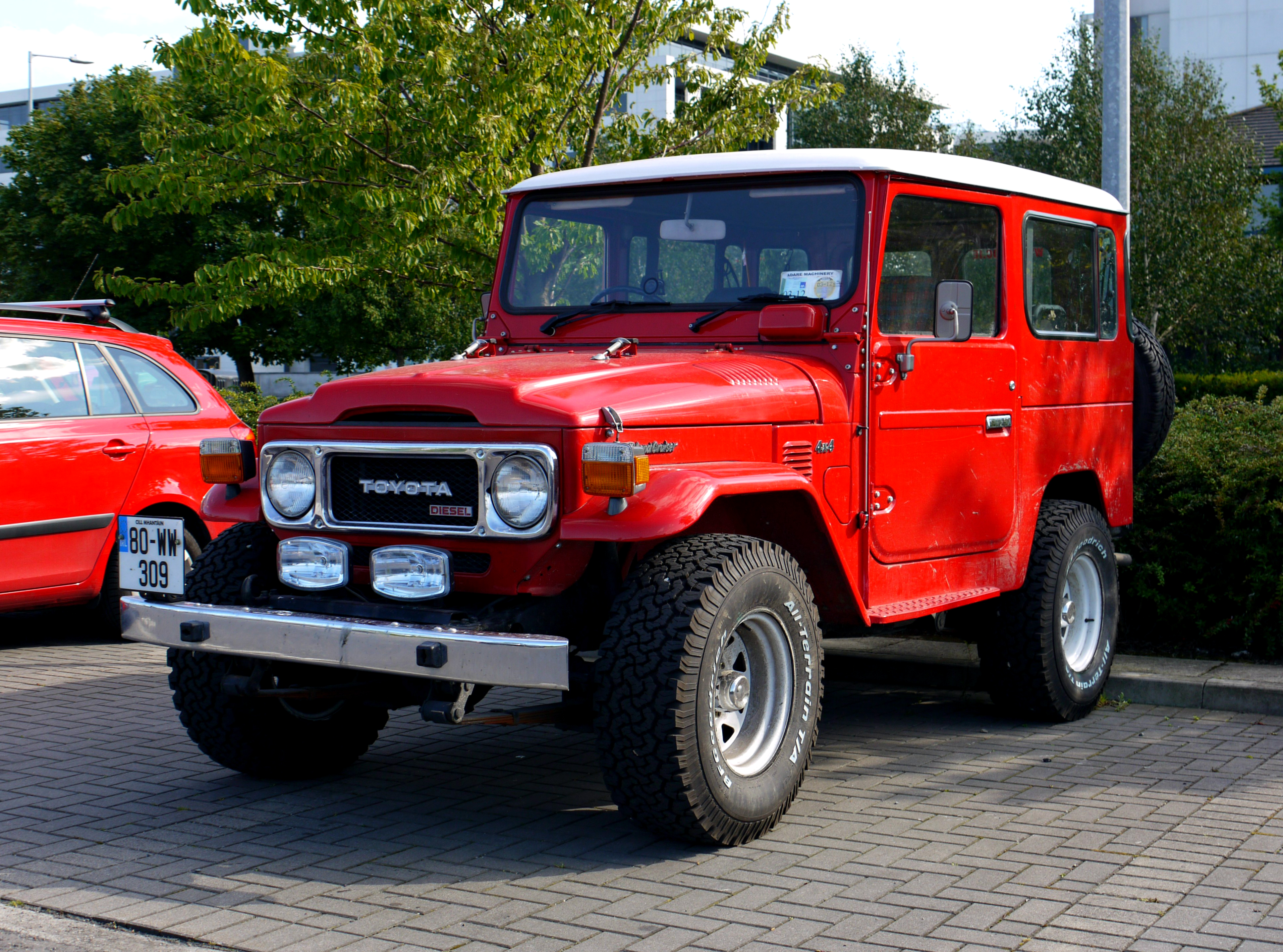 1980 Toyota LandCruiser BJ41.